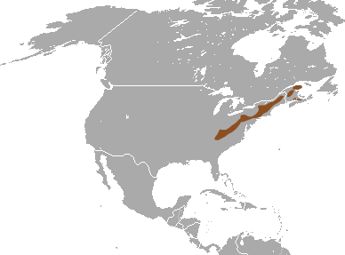 Long-tailed Shrew (Sorex dispar) range